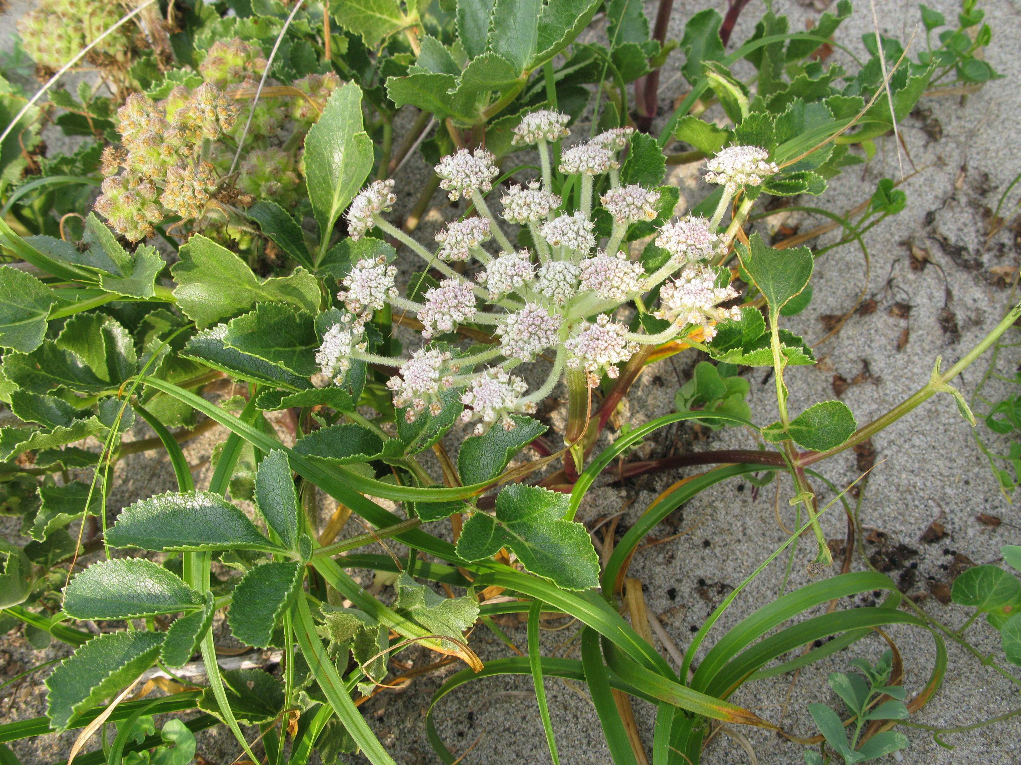 Glehnia littoralis, Syonai area, Yamagata pref., Japan